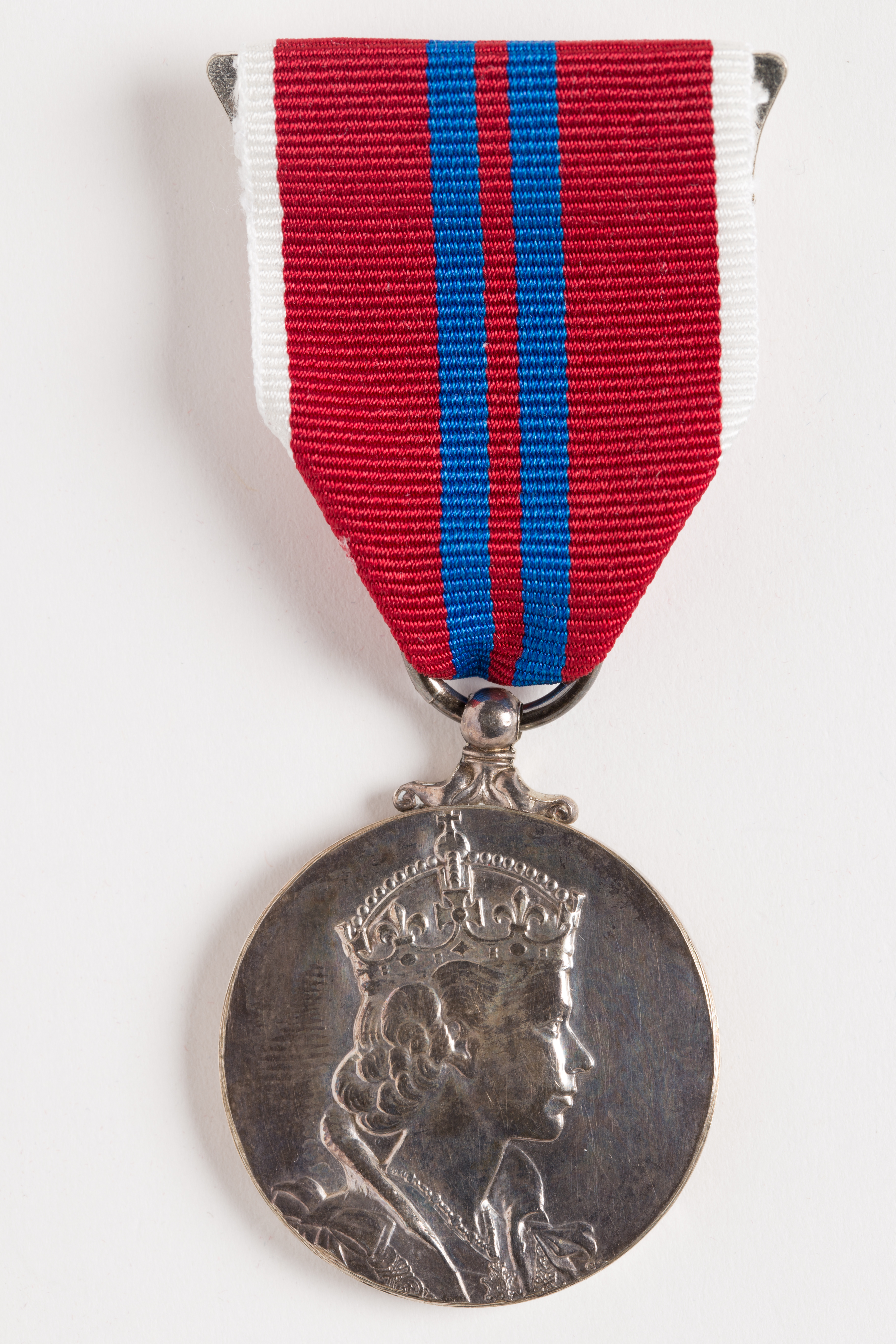 The Coronation Medal, 1953 in royal mint case of issue